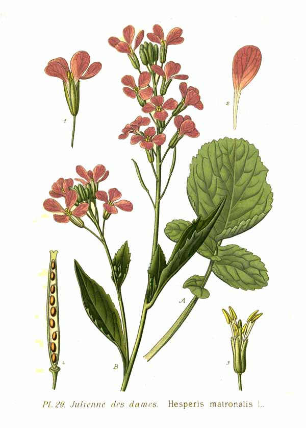 Hesperis matronalis L.